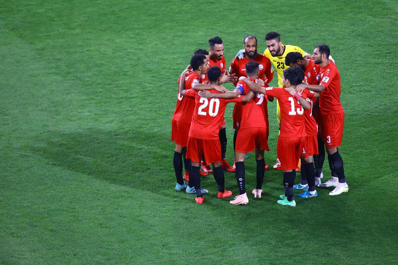 Iran & Yemen Group D match, 2019 AFC Asian Cup